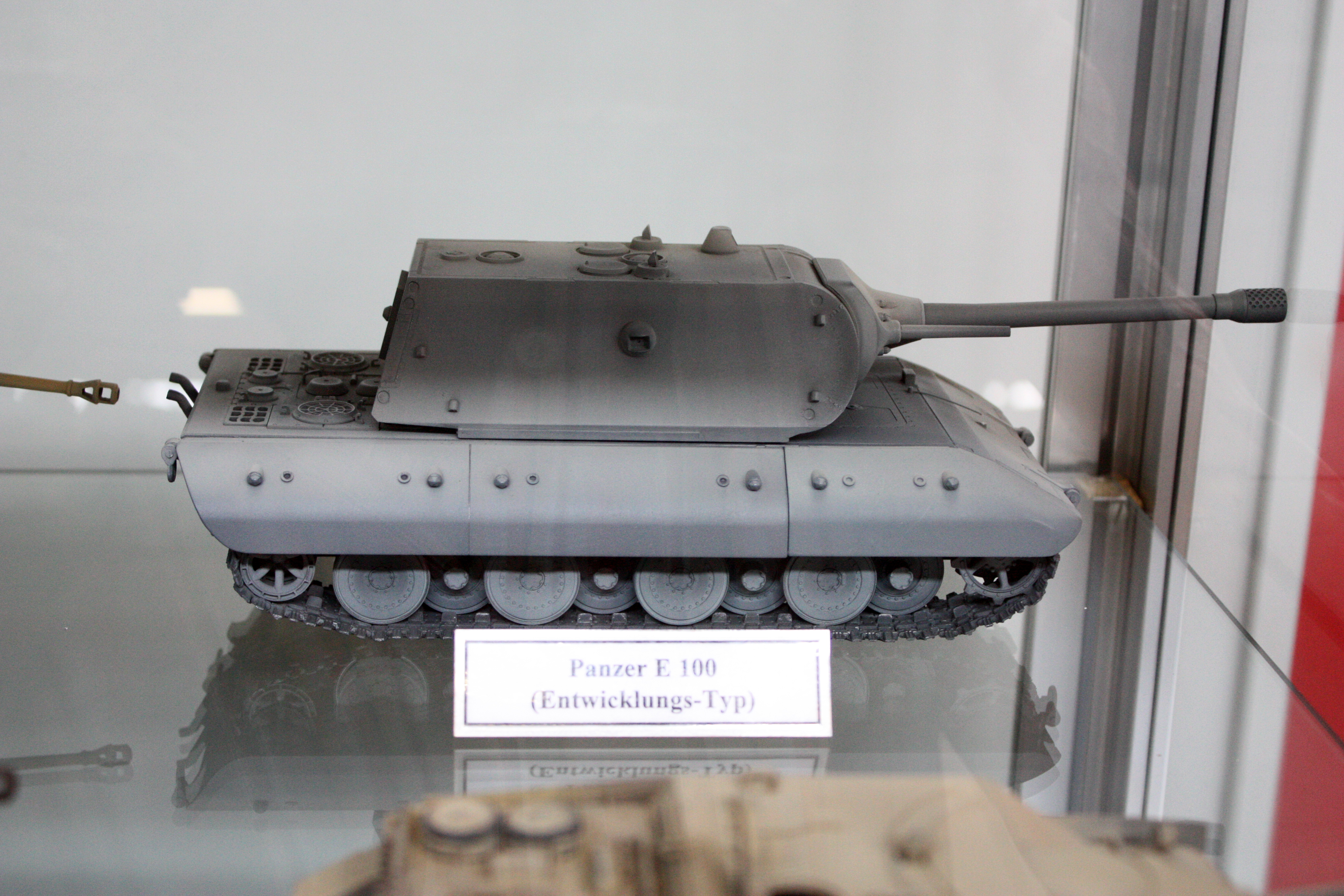 German Tank Museum